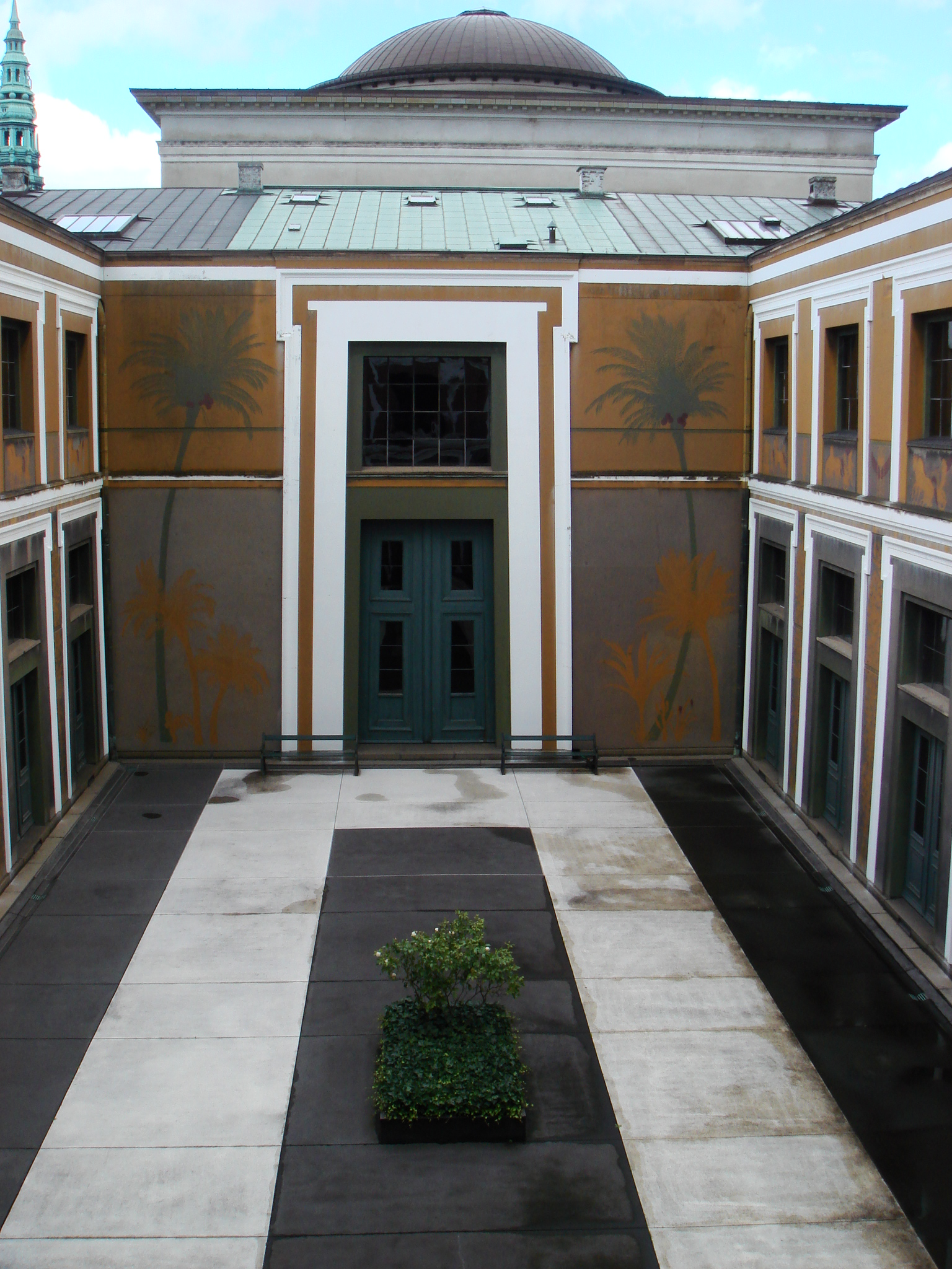 Grave of Bertel Thorvaldsen. Museo Thorvaldsen, Copenhagen. Picture by Stefano Bolognini.